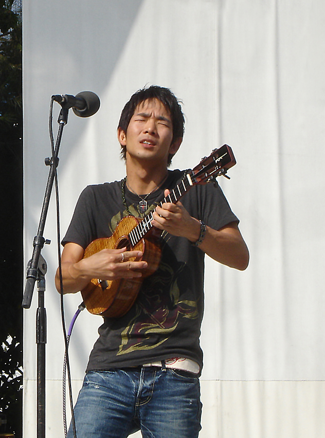 Ukelele player Jake Shimabukuro performing at Yerba Buena Gardens during a ukulele festival in San Francisco, California